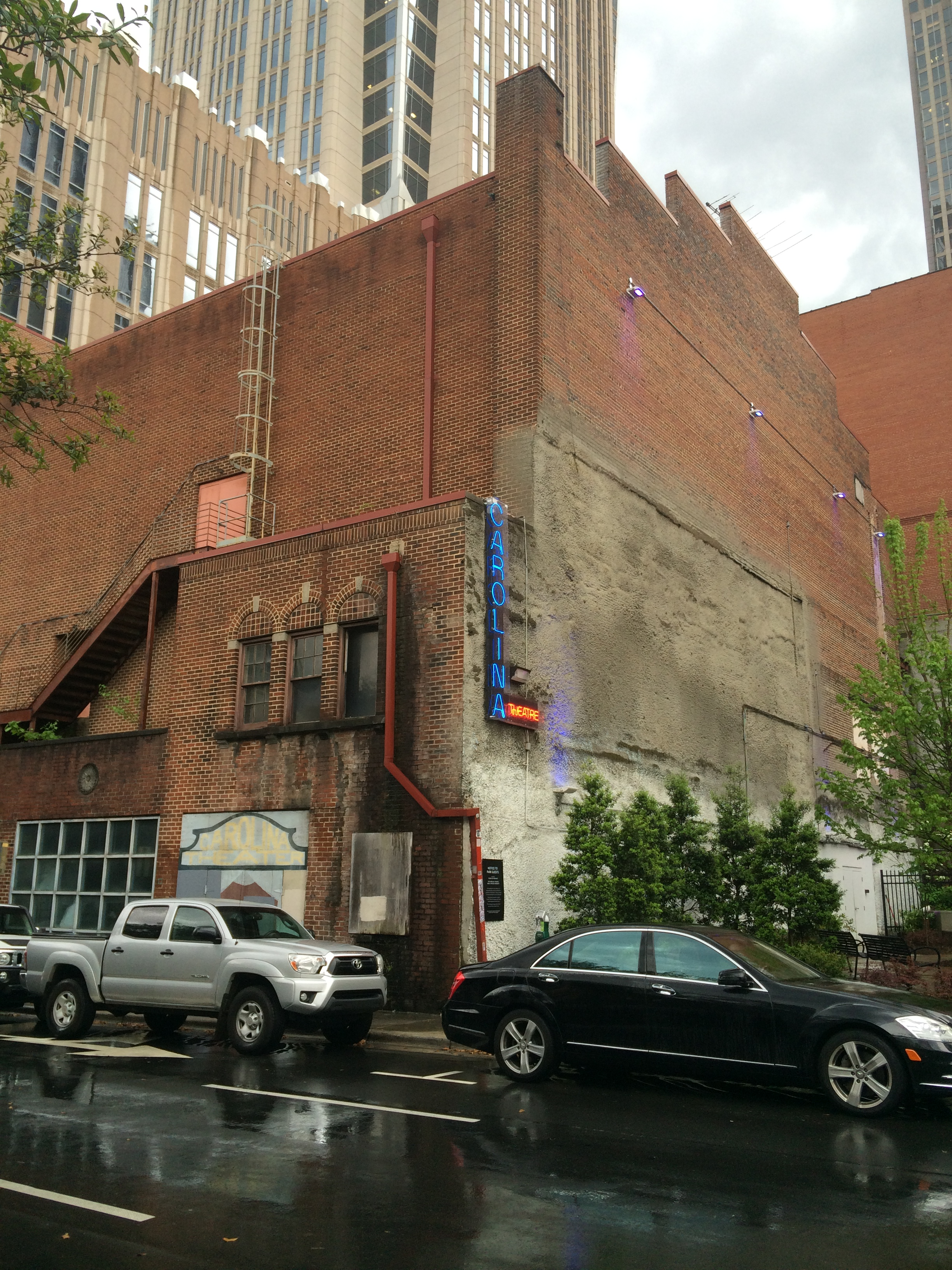 Carolina Theatre before renovation.